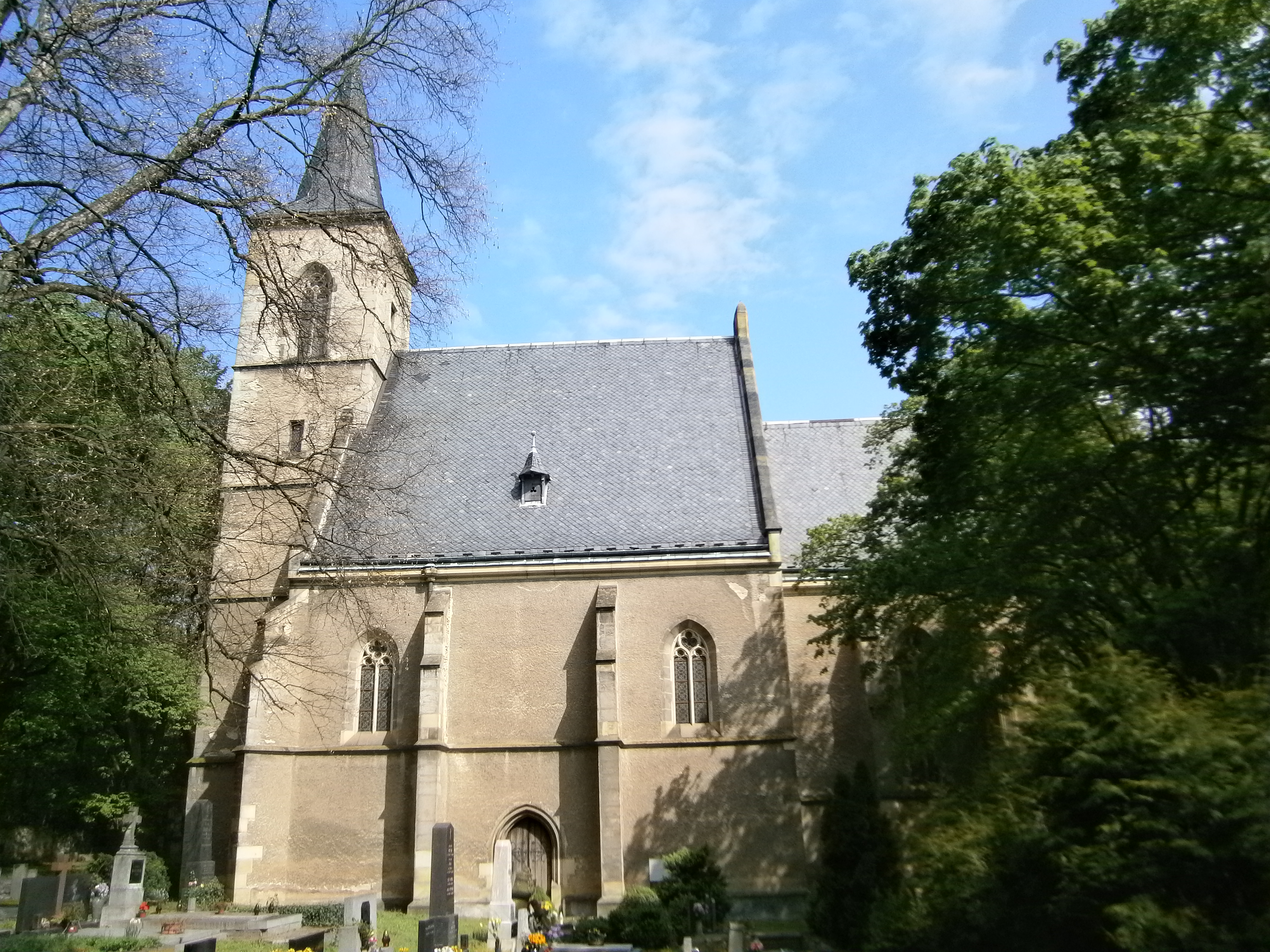 pohled na západní hranolovou věž